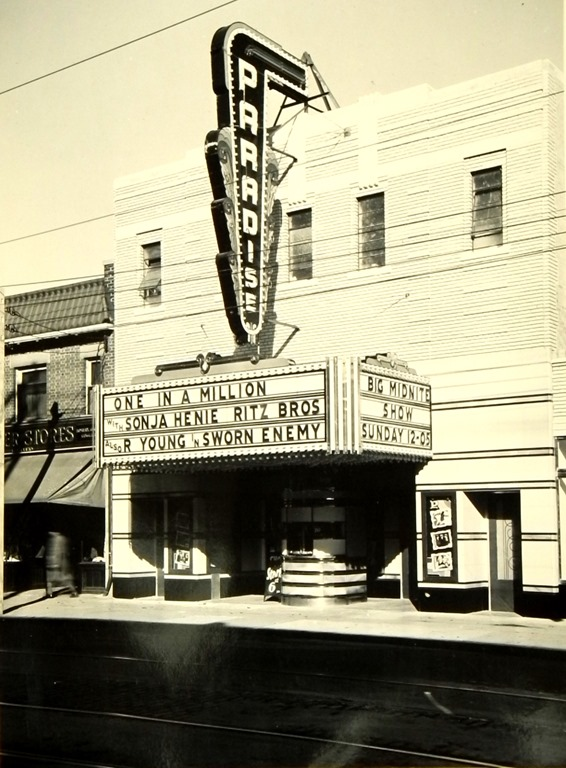 Toronto's Paradise Theatre, in 1937, from COTA This image is available from the City of Toronto Archives, listed under the archival citation 1150n-147. This tag does not indicate the copyright status of the attached work. A normal copyright tag is still required. See Commons:Licensing for more information.